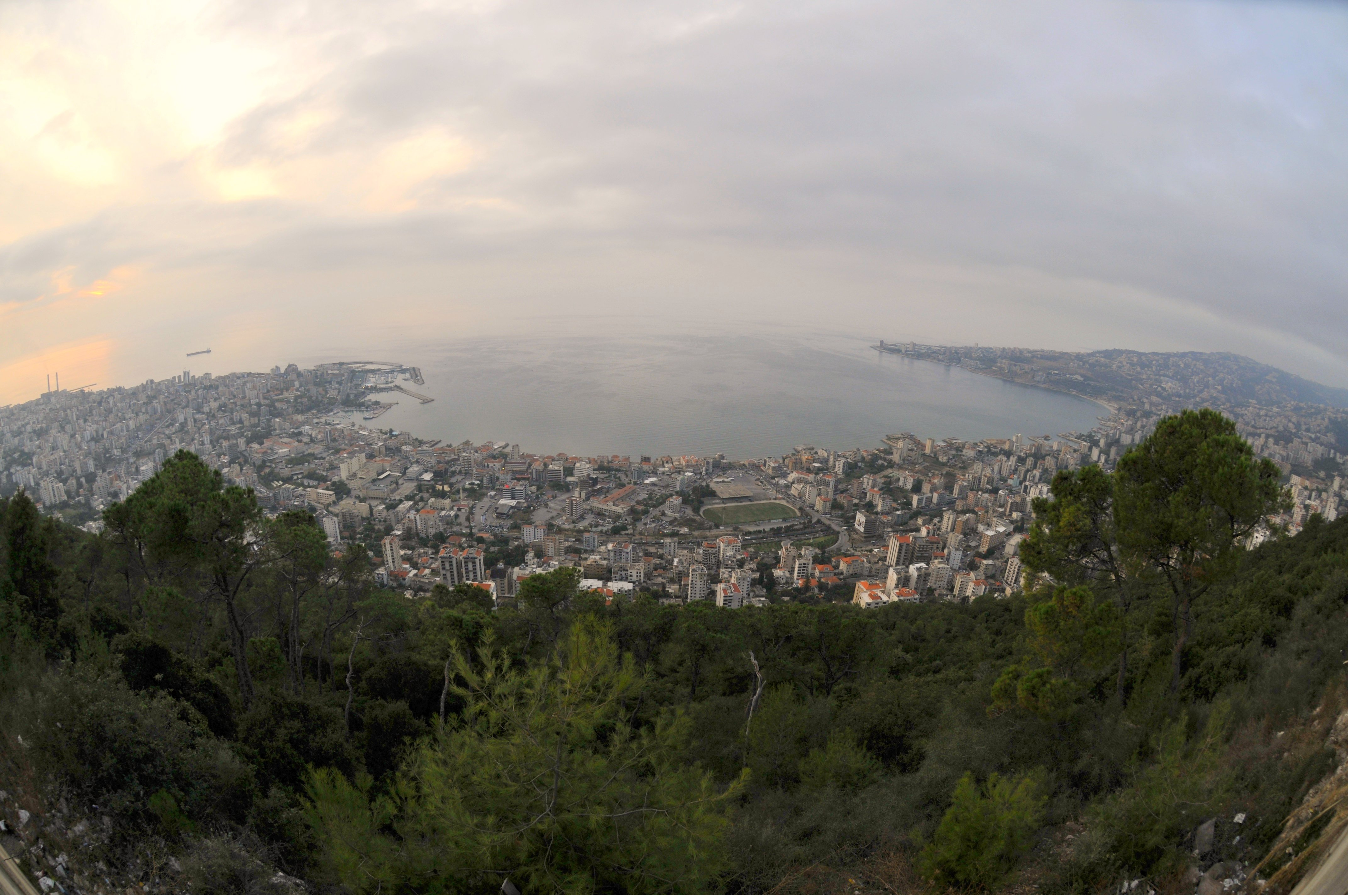 SOOC as well.